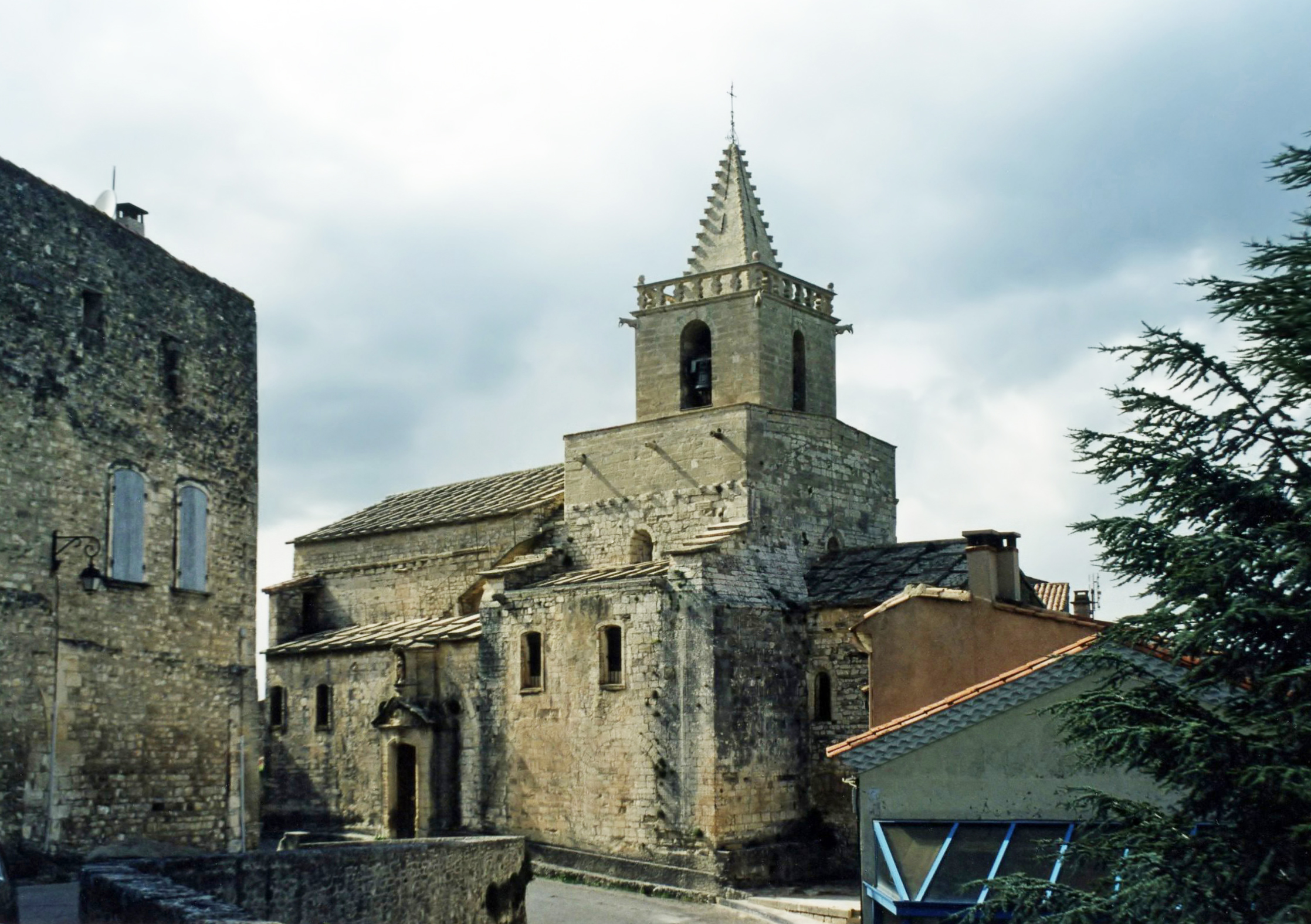 Church of Venasque, Vaucluse département, France